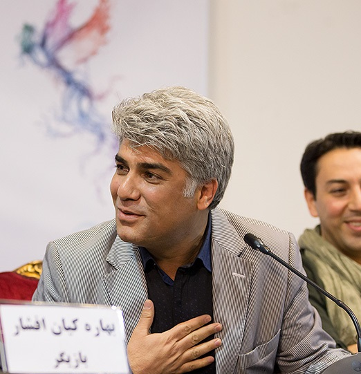 Sattar Oraki